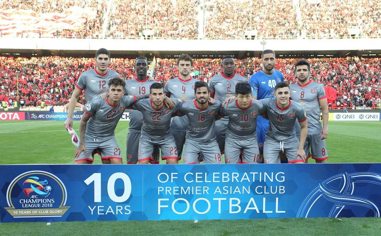 Duhail Sports Club squad lined up in September 2018 before the club's Asian Champions League match against Persepolis. Left to right, top to bottom: Karim Boudiaf, Almoez Ali, Lucas Mendes, Mohammed Musa, Amine Lecomte, Luiz Júnior, Edmilson Junior, Murad Naji, Sultan Al Brake, Nam Tae-hee, Bassam Hisham Al Rawi